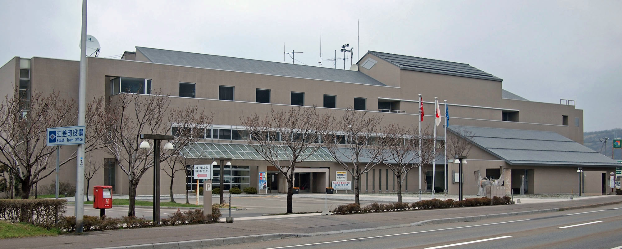 Esashi town hall, Esashi(Hiyama), Hokkaido, Japan